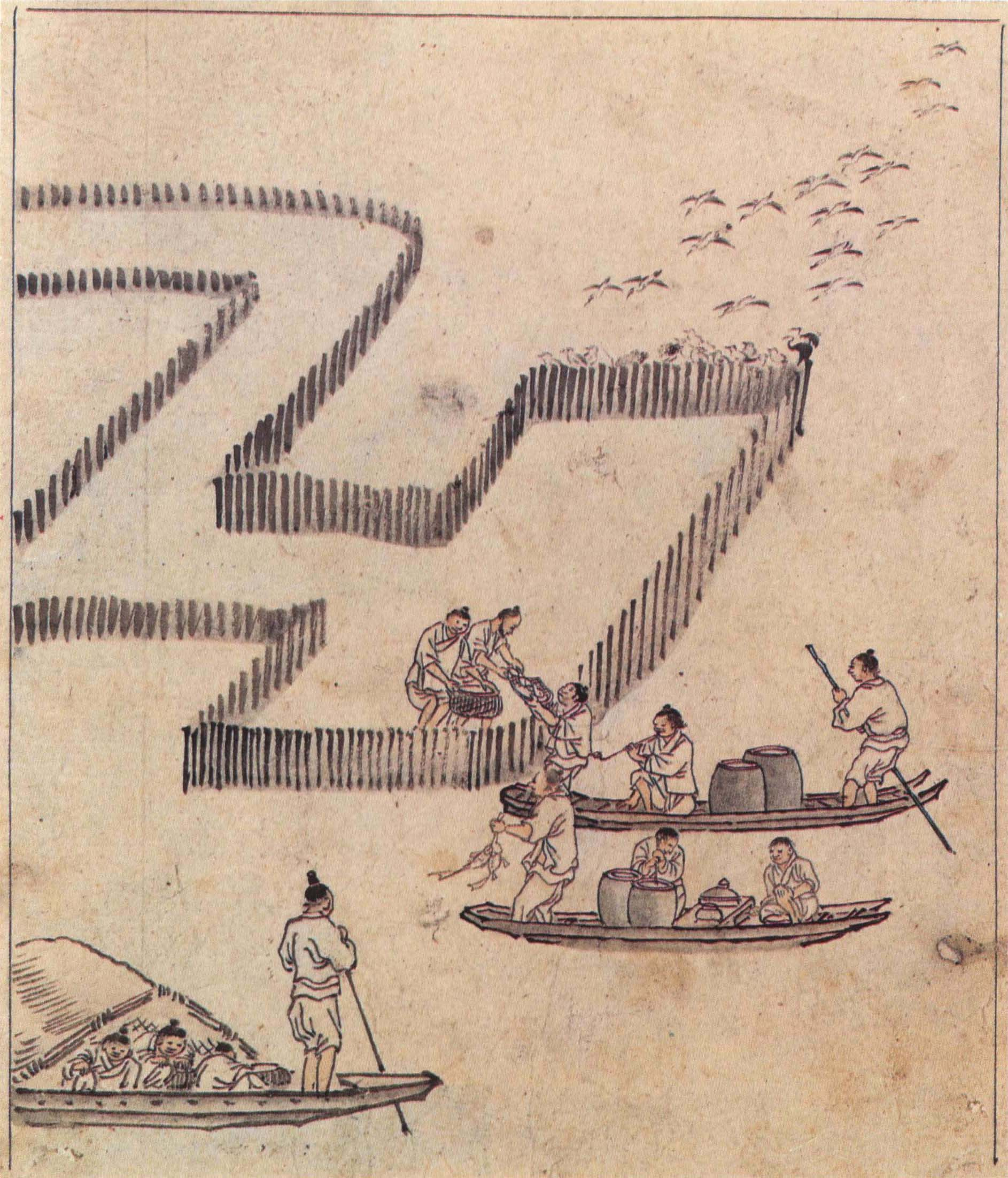 Fishing